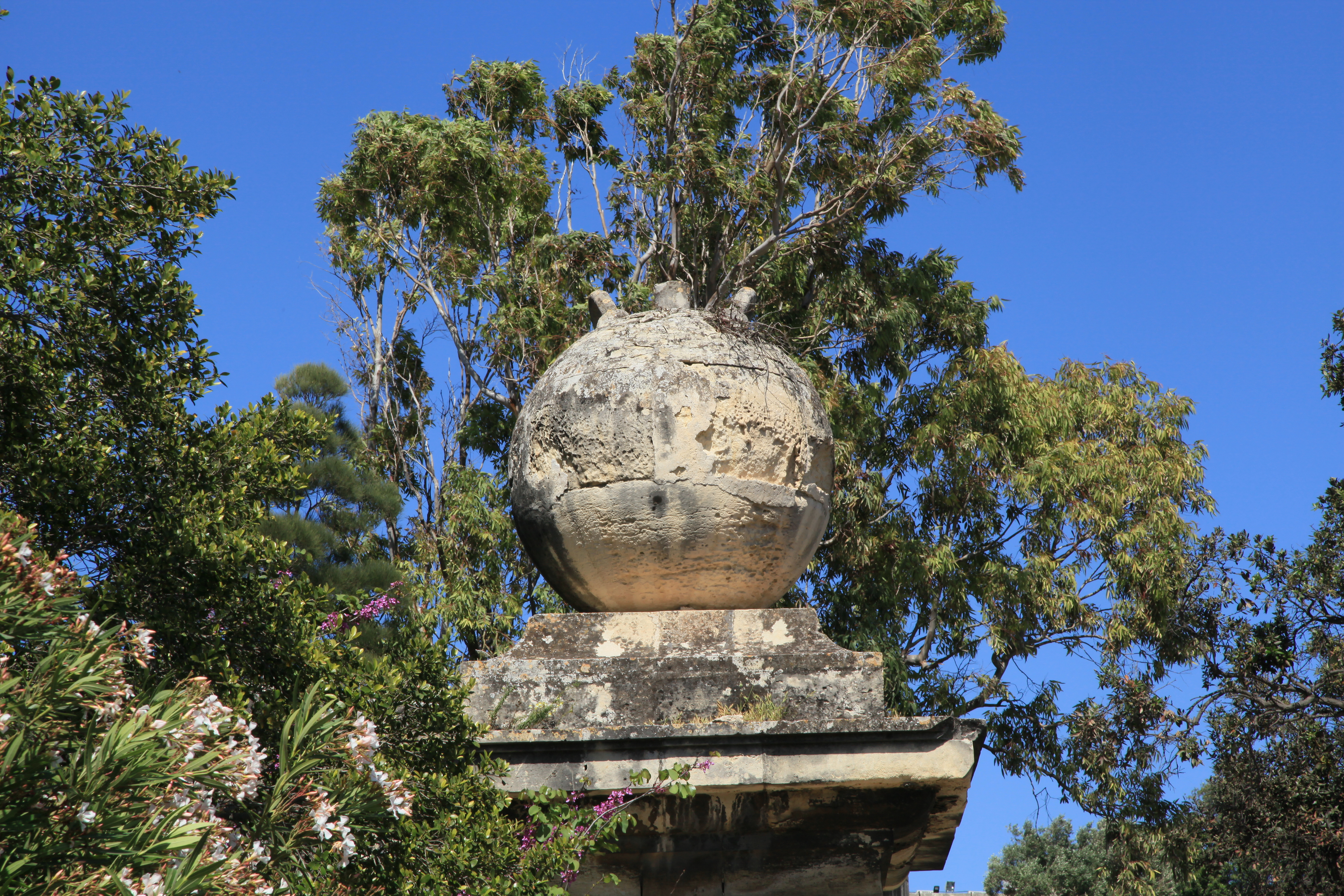 St Philip's Bastion in Floriana, Malta